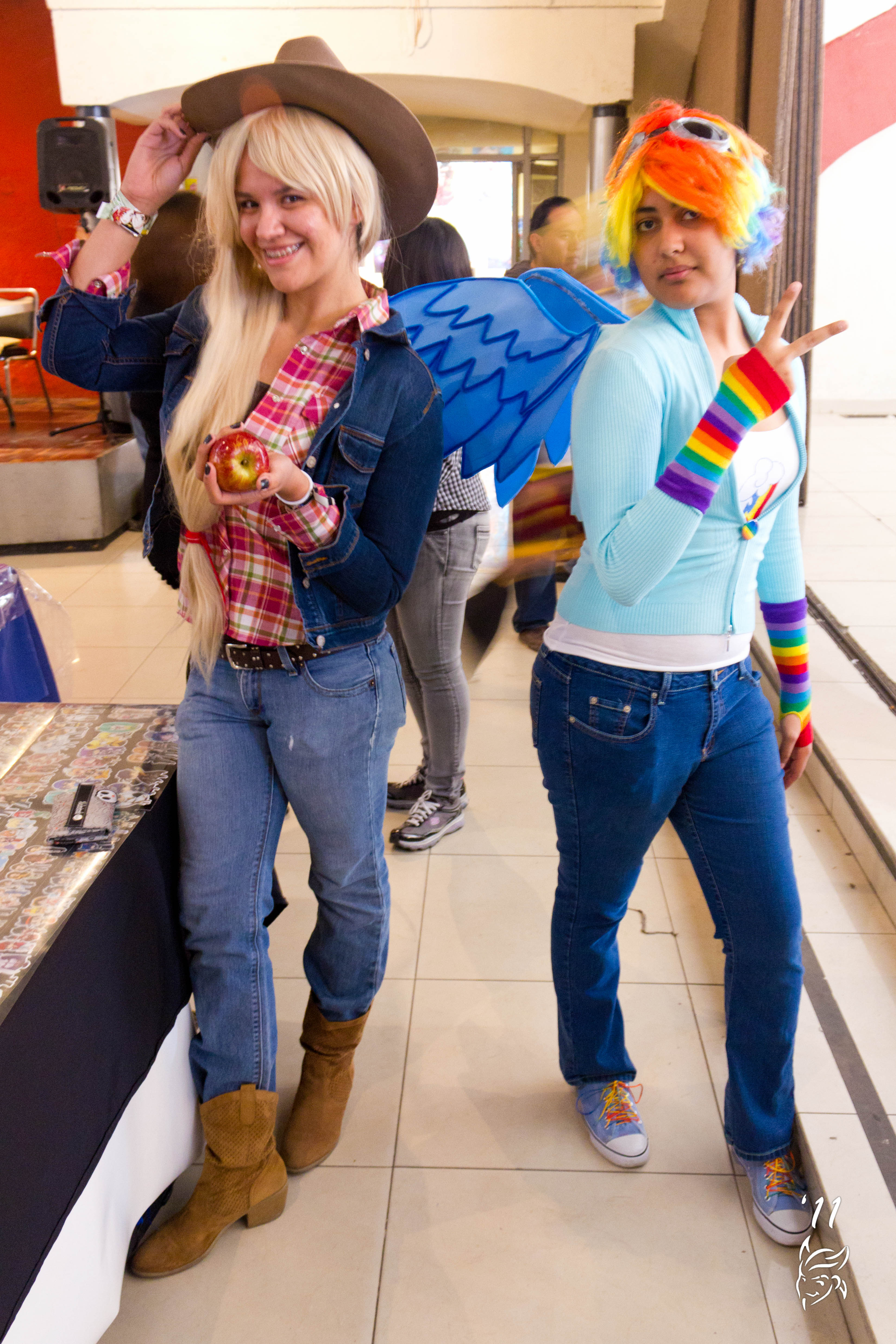 (No original description provided yet)